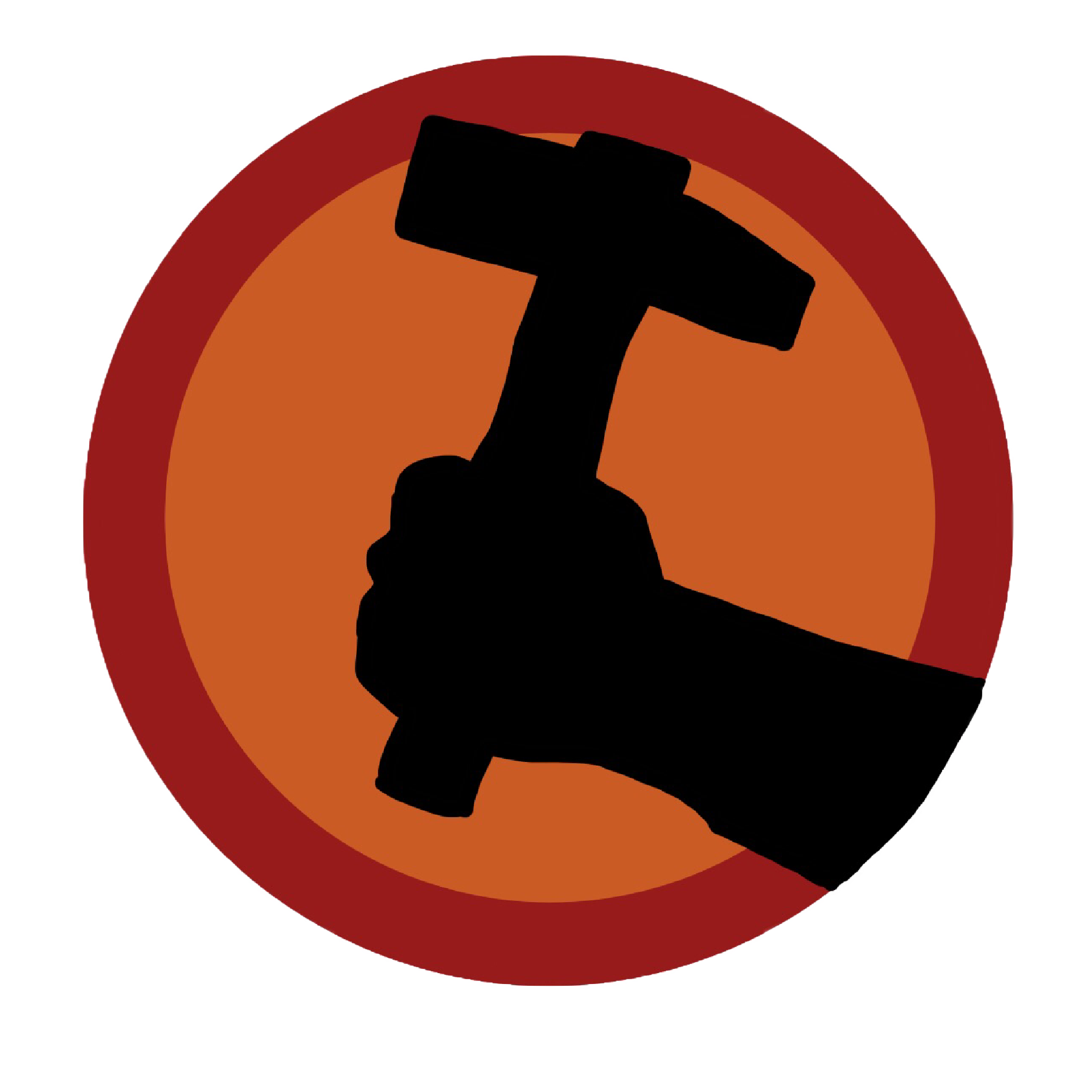 A remade simplified graphic (excluding words and de-pixelising) of the art originally in the 2013 video game Papers, Please, specifically in the opening cutscenes.